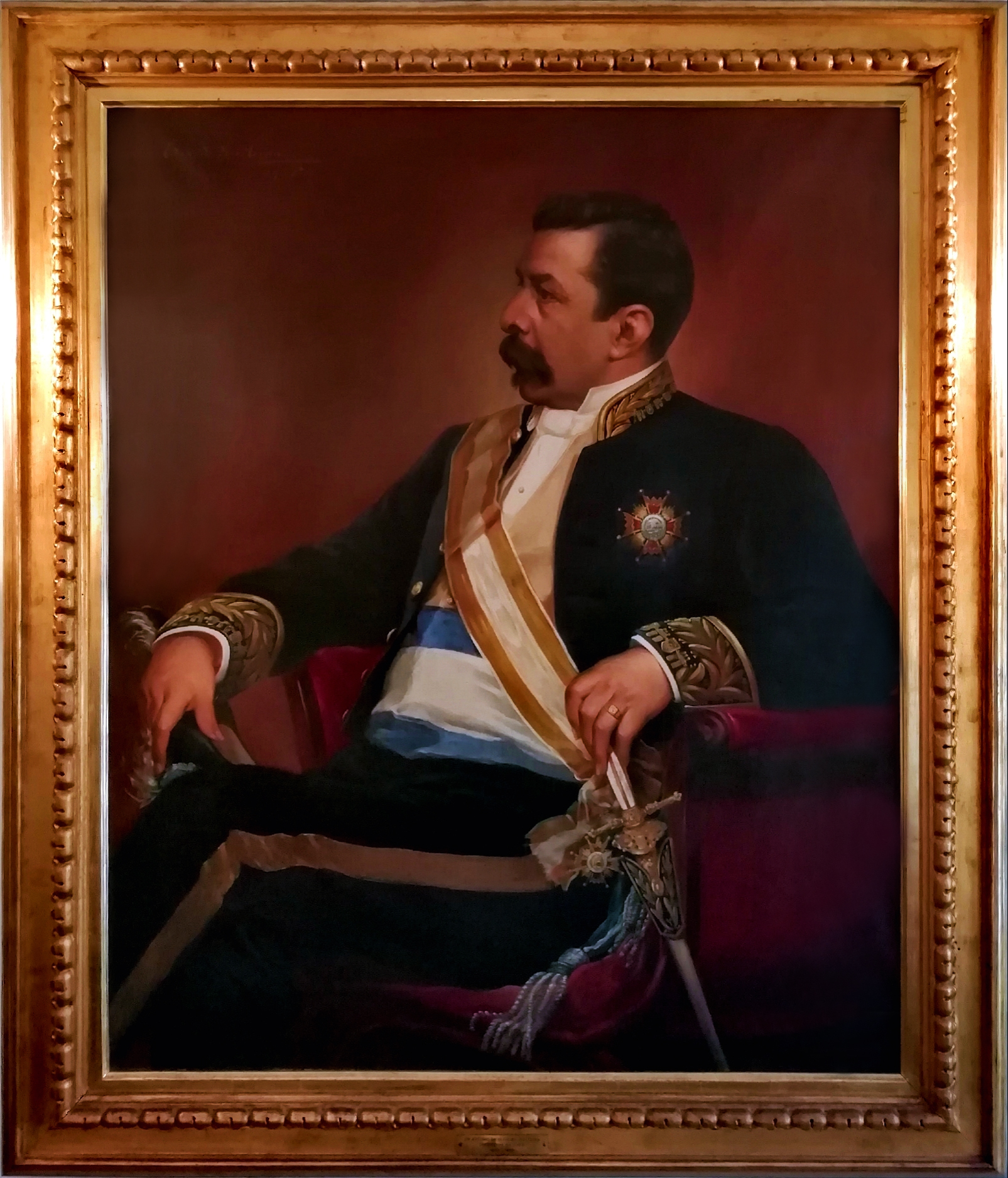 Retrato do Conselheiro Oliveira Monteiro na Sala das Sessões da Câmara Municipal do Porto